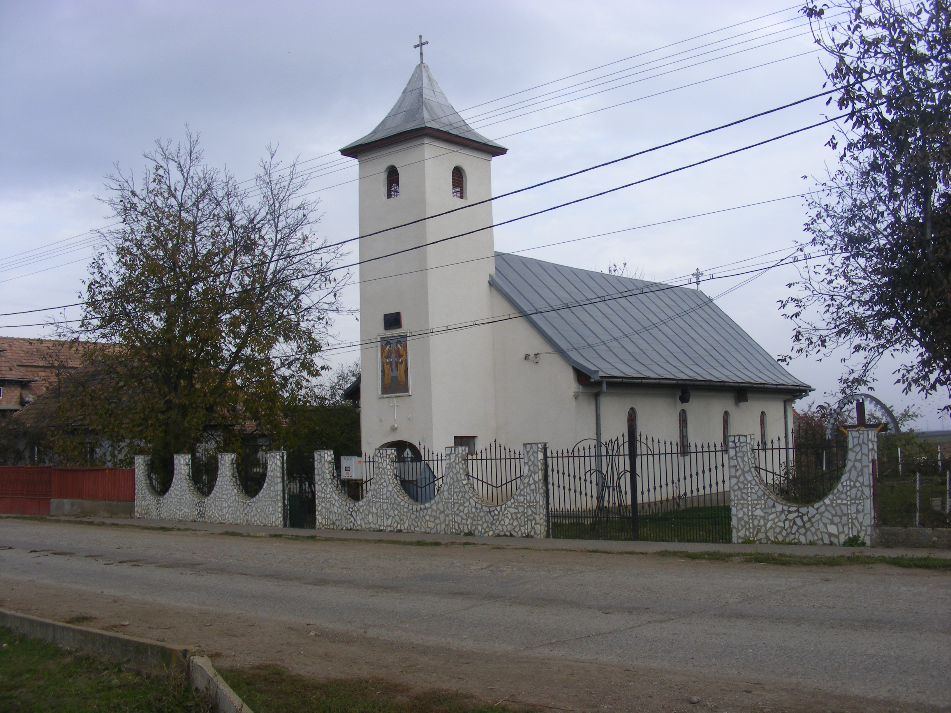 Ortodoxian church at Bogata, Cluj County, Romania.